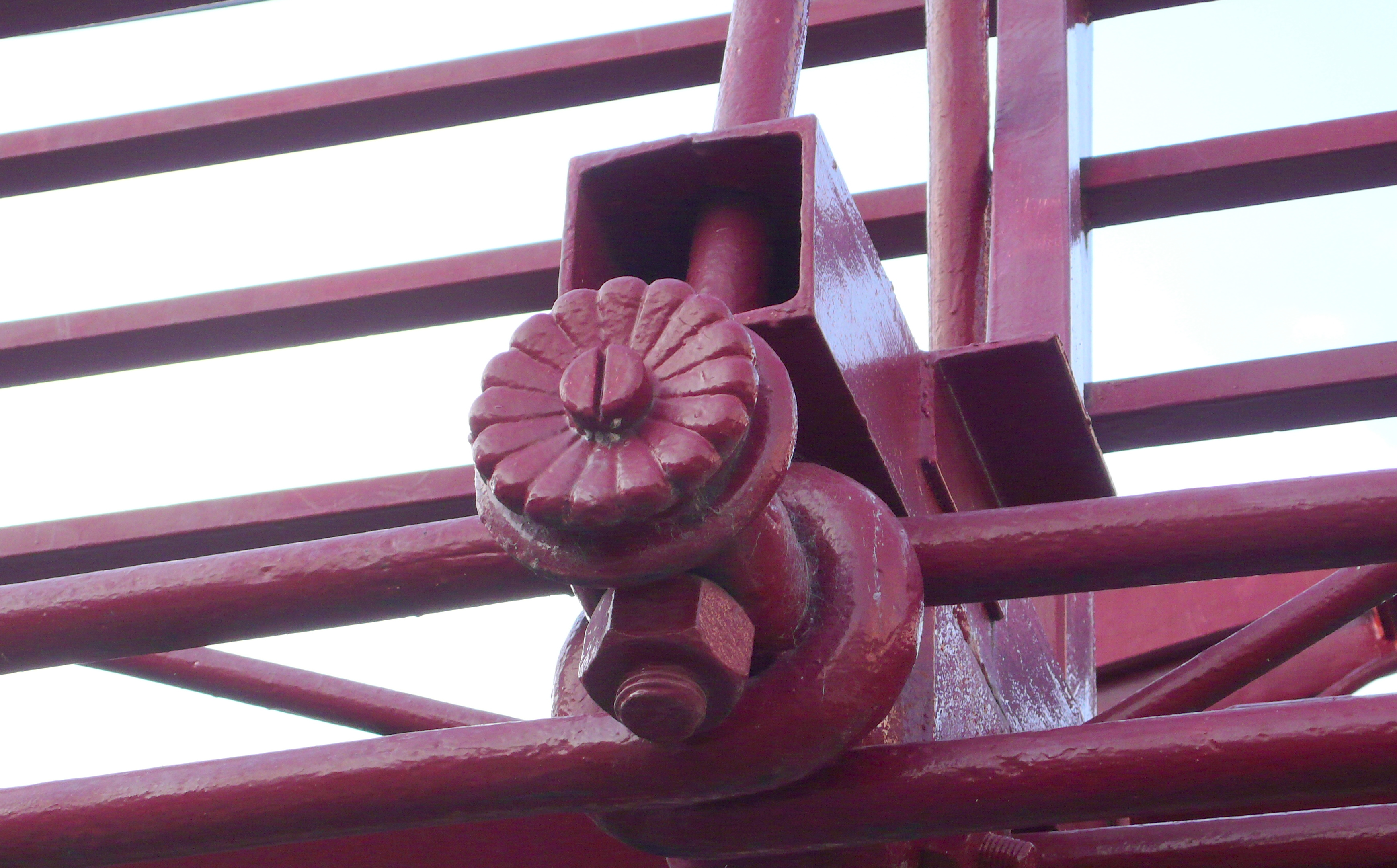 Hachiman-bashi Bridge